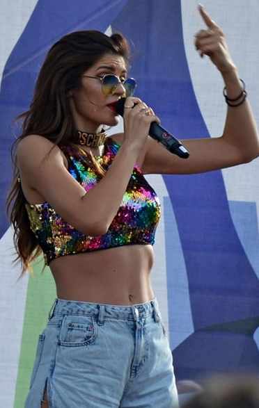 Mihaela Fileva during Sofia Pride 2019